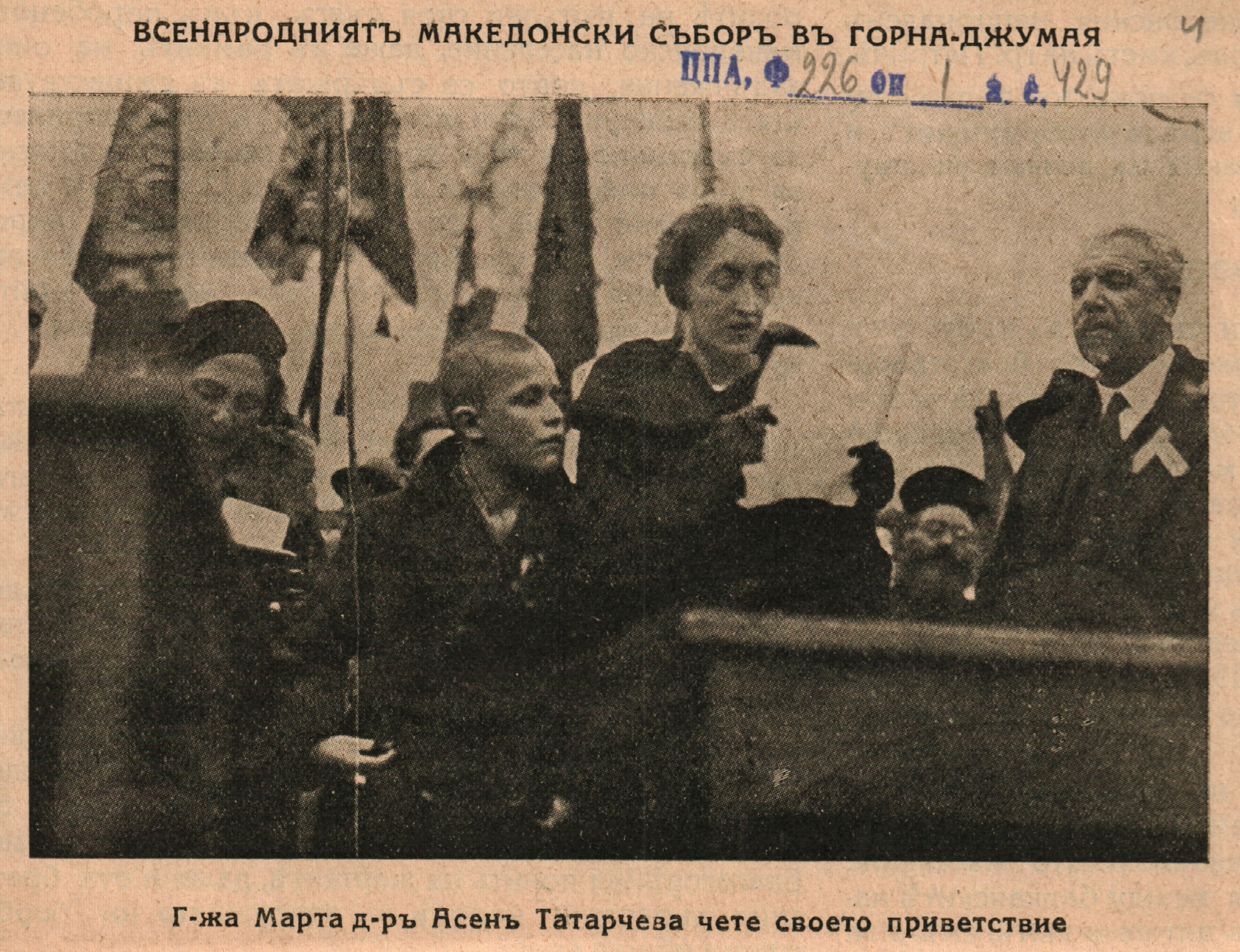 Photo from the Macedonian National Council, 1933 in Gorna Dzhumaya (Blagoevgrad).